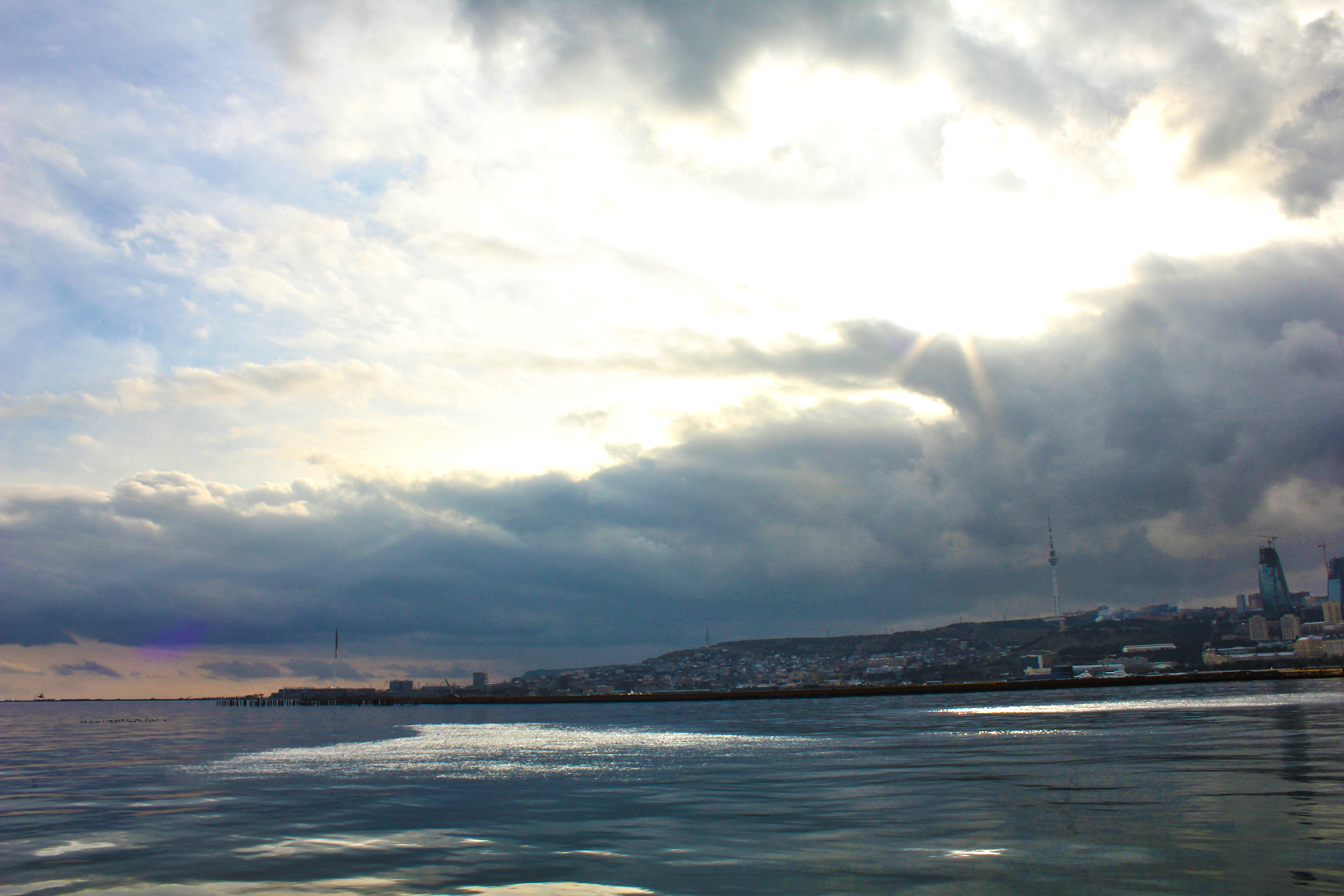 Baku boulvard and Caspian sea